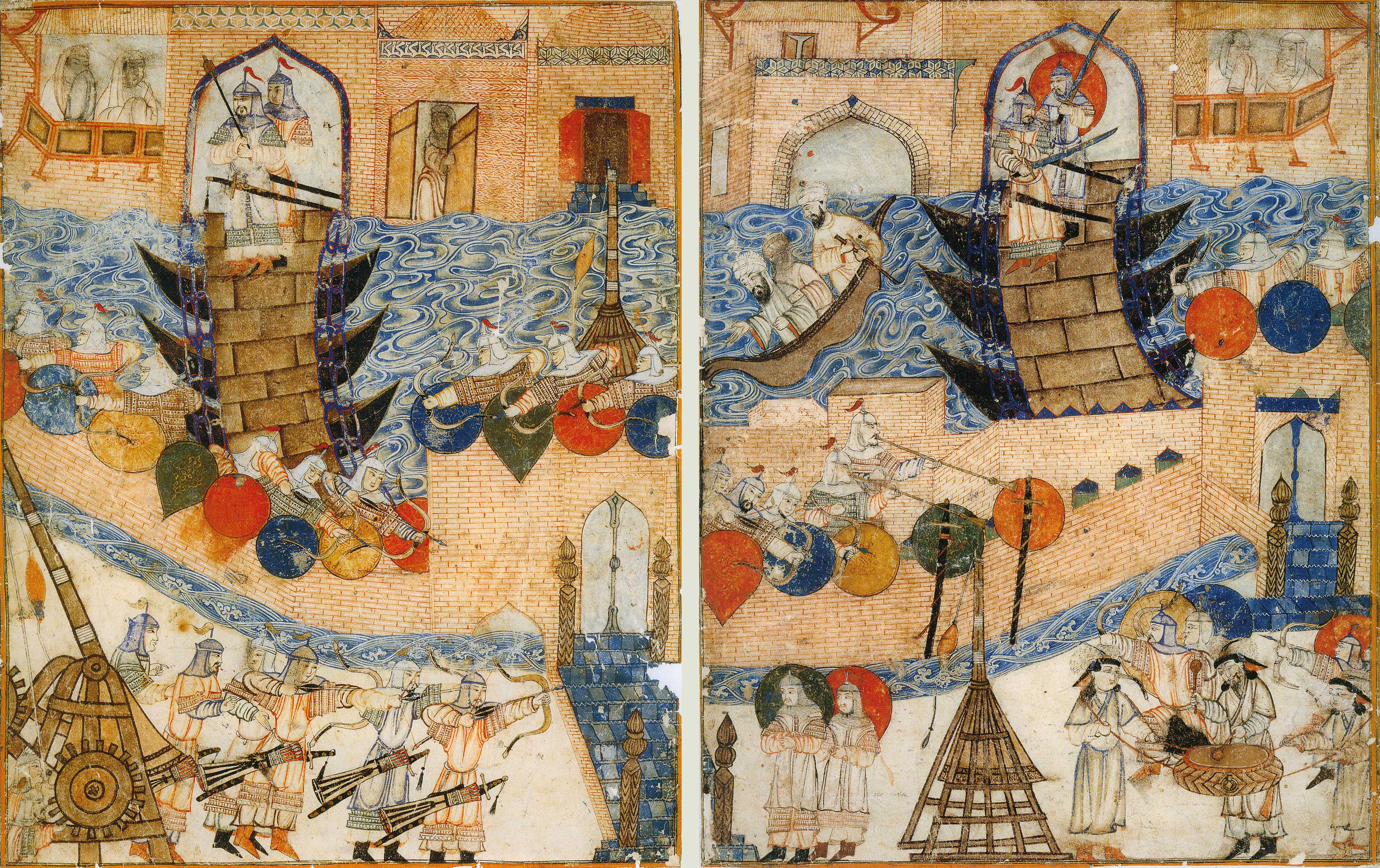 Conquest of Baghdad by the Mongols 1258. Double-page illustration of Rashid-ad-Din's Gami' at-tawarih. Tabriz (?), 1st quarter of 14th century. Water colours and gold on paper. Original size: 37.4 cm x 29.3 cm (right), 37.2 cm x 29 cm (left). Staatsbibliothek Berlin, Orientabteilung, Diez A fol. 70, p. 4 (right) and 7 (left). Note the ponton bridges, siege engines, and the refugee on the boat, maybe a high dignitary or even the calif himself. For only the left or only the right part of the illustration, see Image:DiezAlbumsFallOfBaghdad_b.jpg and Image:DiezAlbumsFallOfBaghdad_a.jpg.